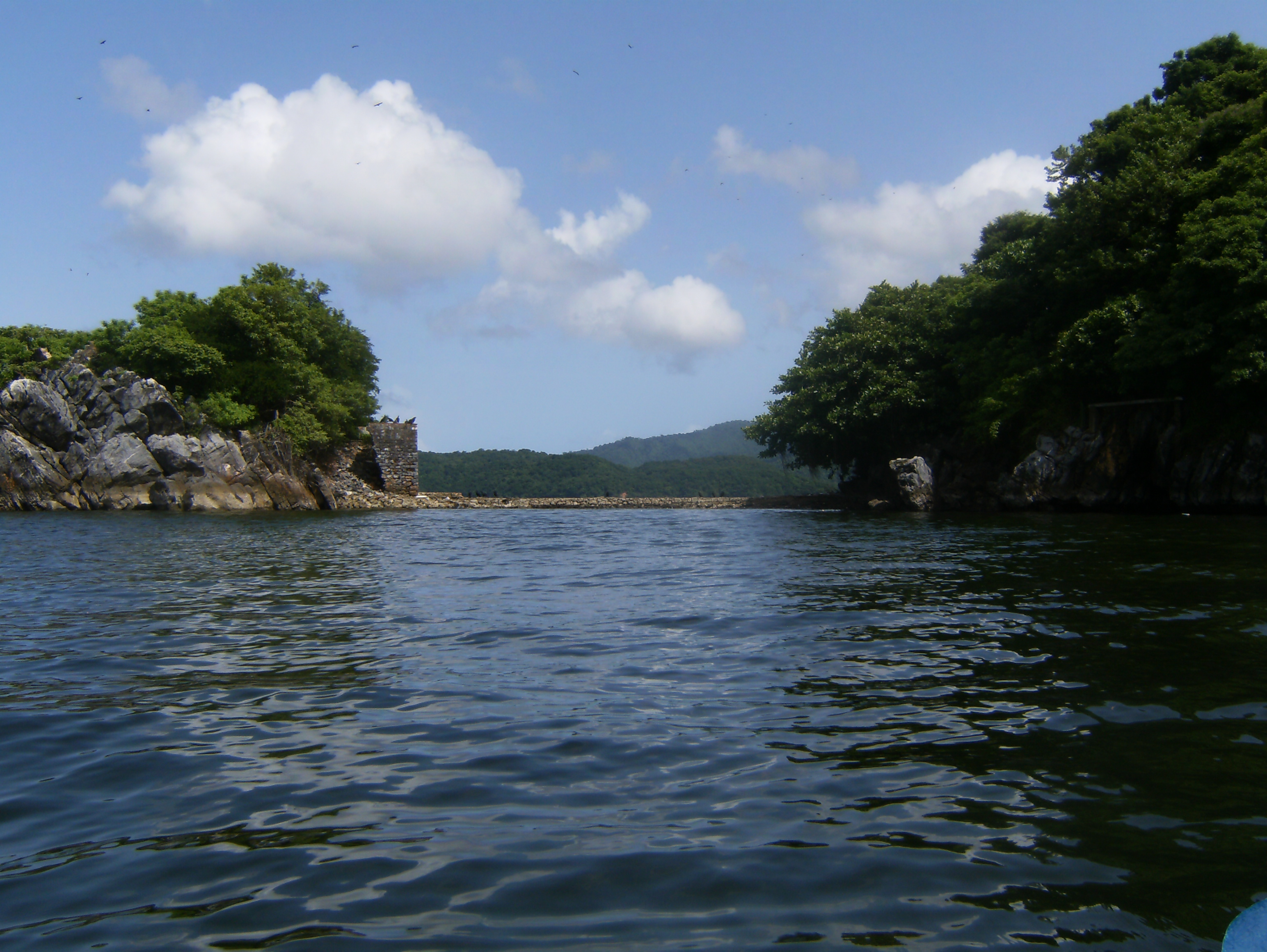 Man made causeway connecting Caledonia and Craig island in the Five Islands of Trinidad and Tobago